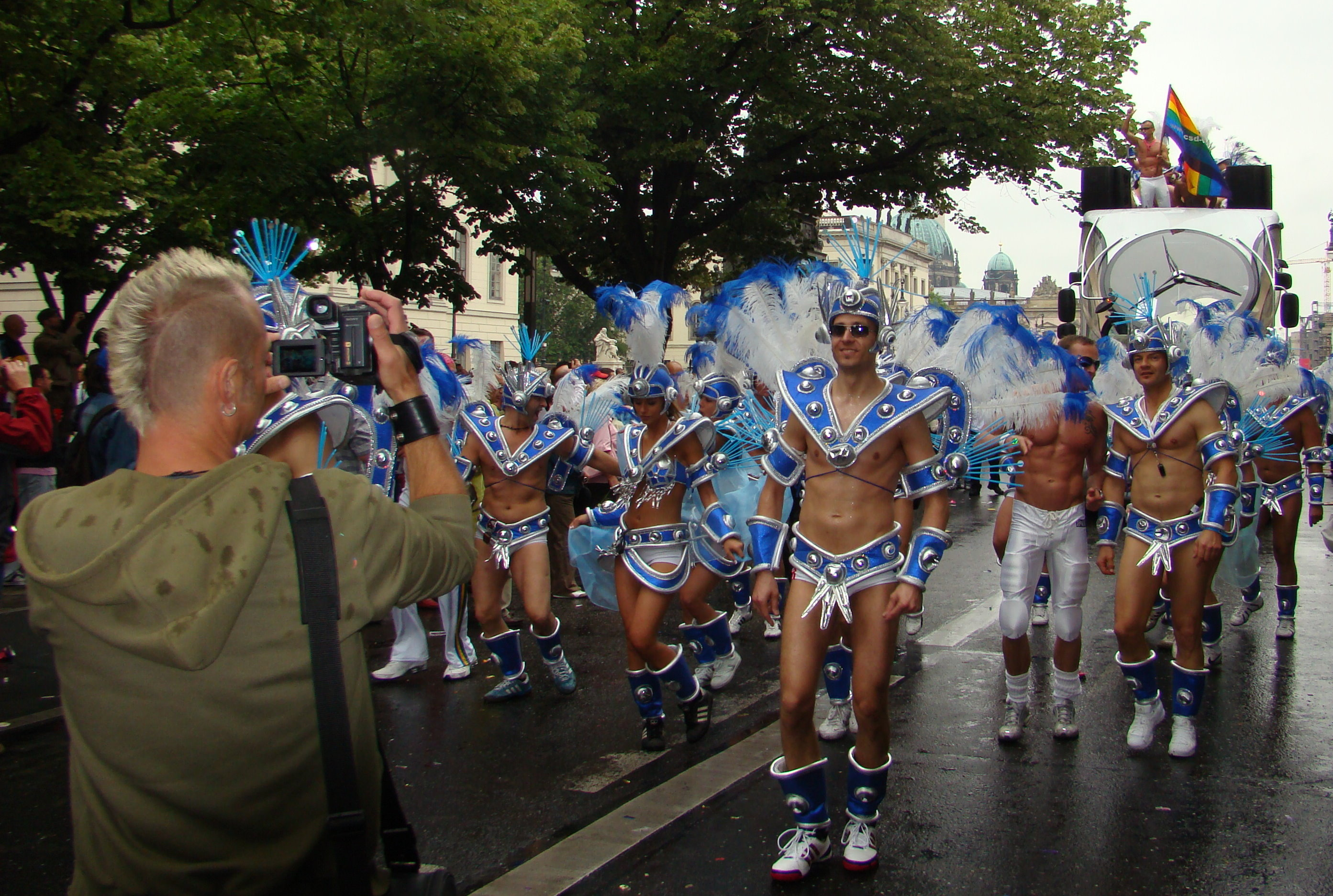 Christopher Street Day 2008 in Berlin.